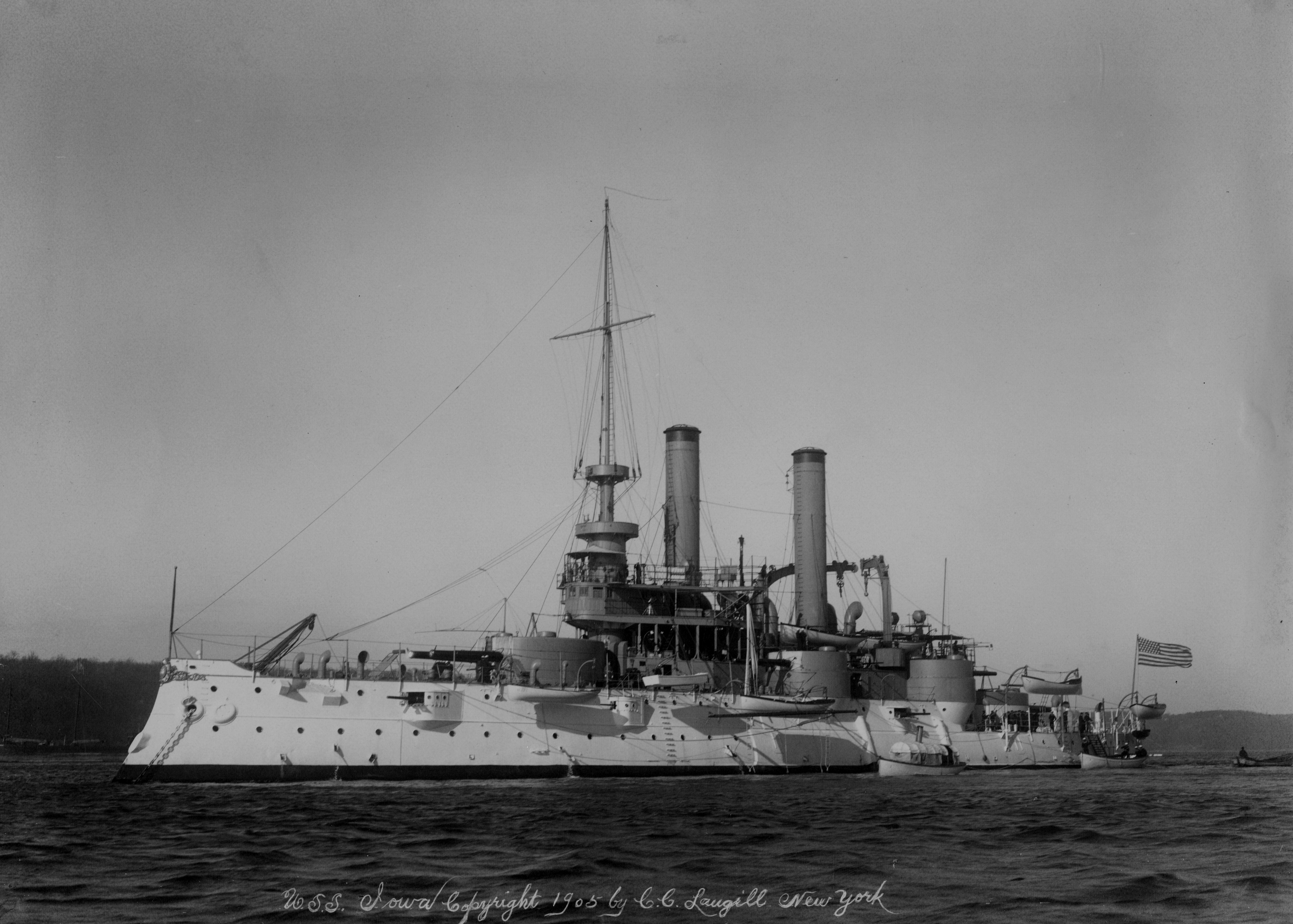 (Battleship # 4) Anchored off New York City, 1905. Photographed by C.C. Langill, New York. Collection of Warren Beltramini, donated by Beryl Beltramini, 2007. U.S. Naval History and Heritage Command Photograph.